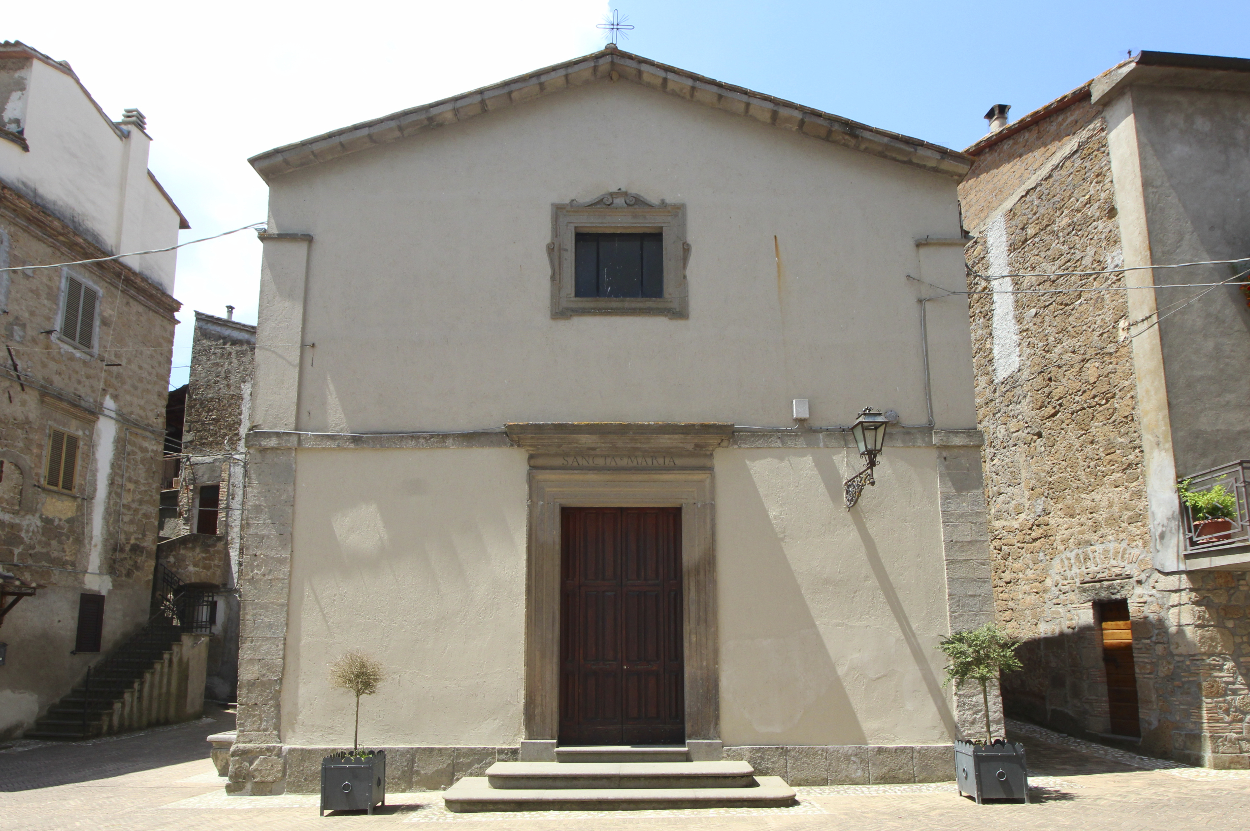 Church Santa Maria Assunta, Mugnano in Teverina, hamlet of Bomarzo, Province of Viterbo, Lazio, Italy